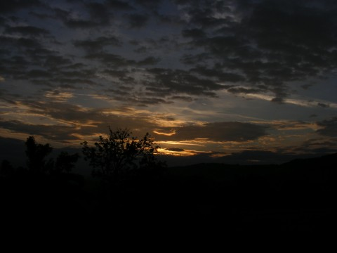 Free Photos – Sunrise Sky Gallery More Photos and Full Size Up to 3072 x 2304 pixels Information Regarding Copyright